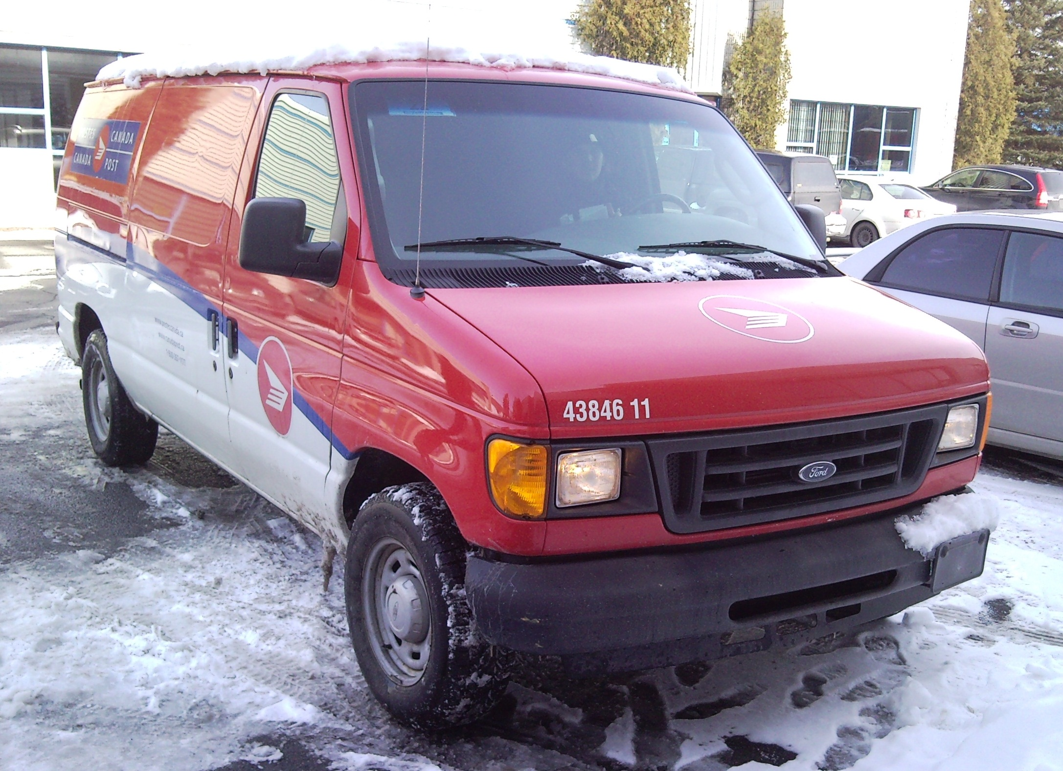 2003-2005 Ford E-Series Canada Post photographed in Pointe-Claire, Quebec, Canada.